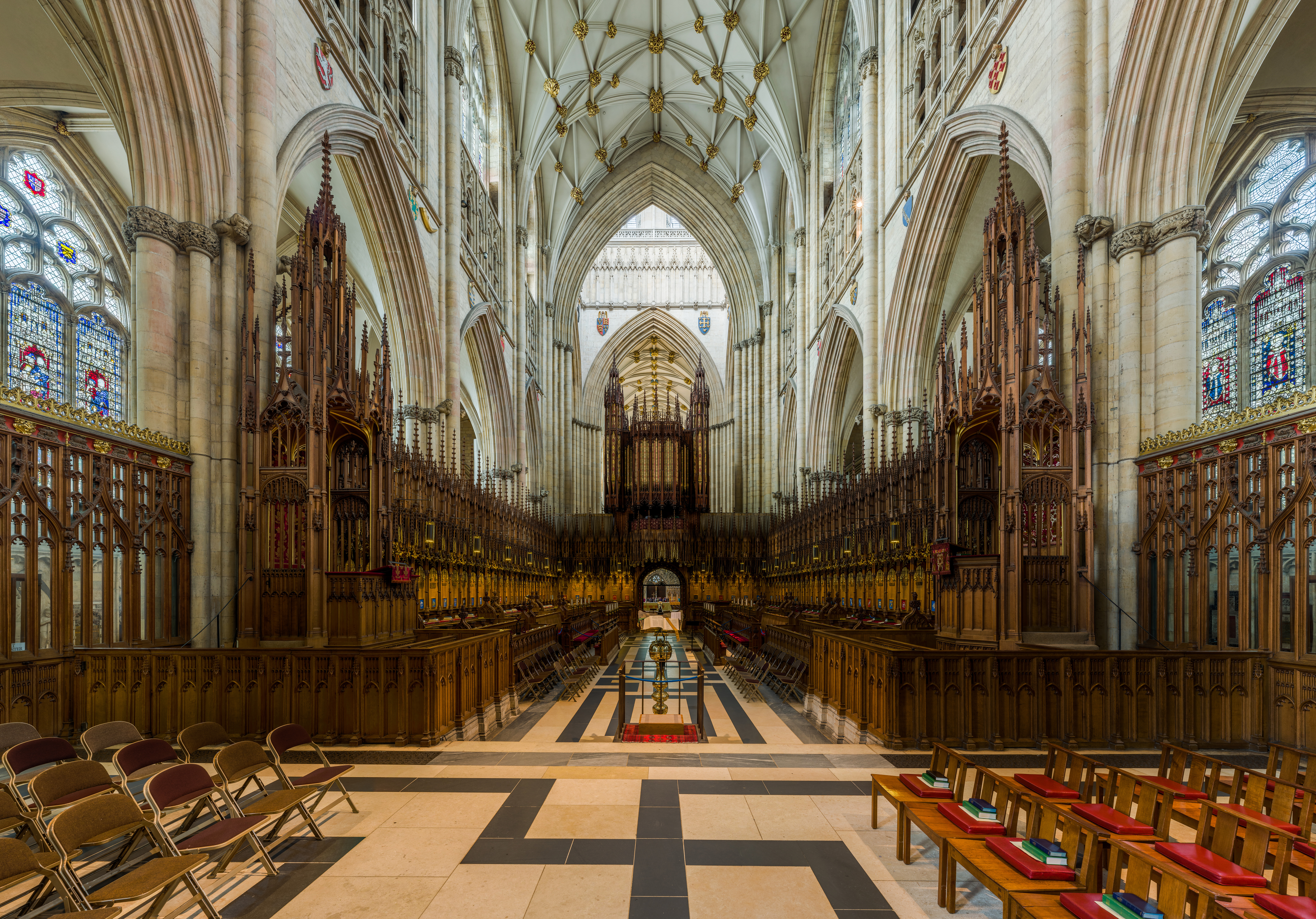 The choir of York Minster looking west toward the nave in North Yorkshire, England.